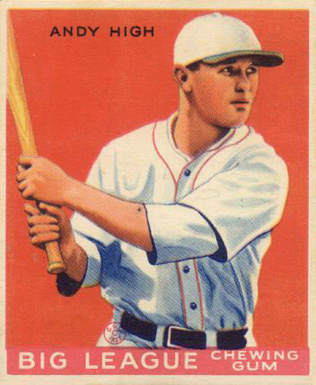 1933 Goudey baseball card of Andy High of the Cincinnati Reds #182. PD-not-renewed.